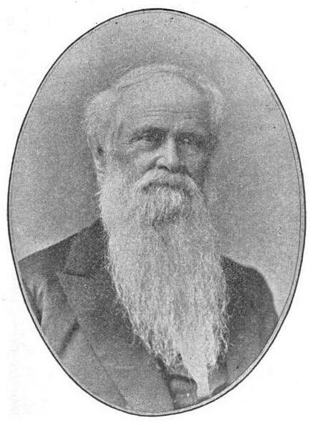 Image from: Will Seymour Monroe, The educational labors of Henry Barnard: a study in the history of American pedagogy(C. W. Bardeen, 1893)